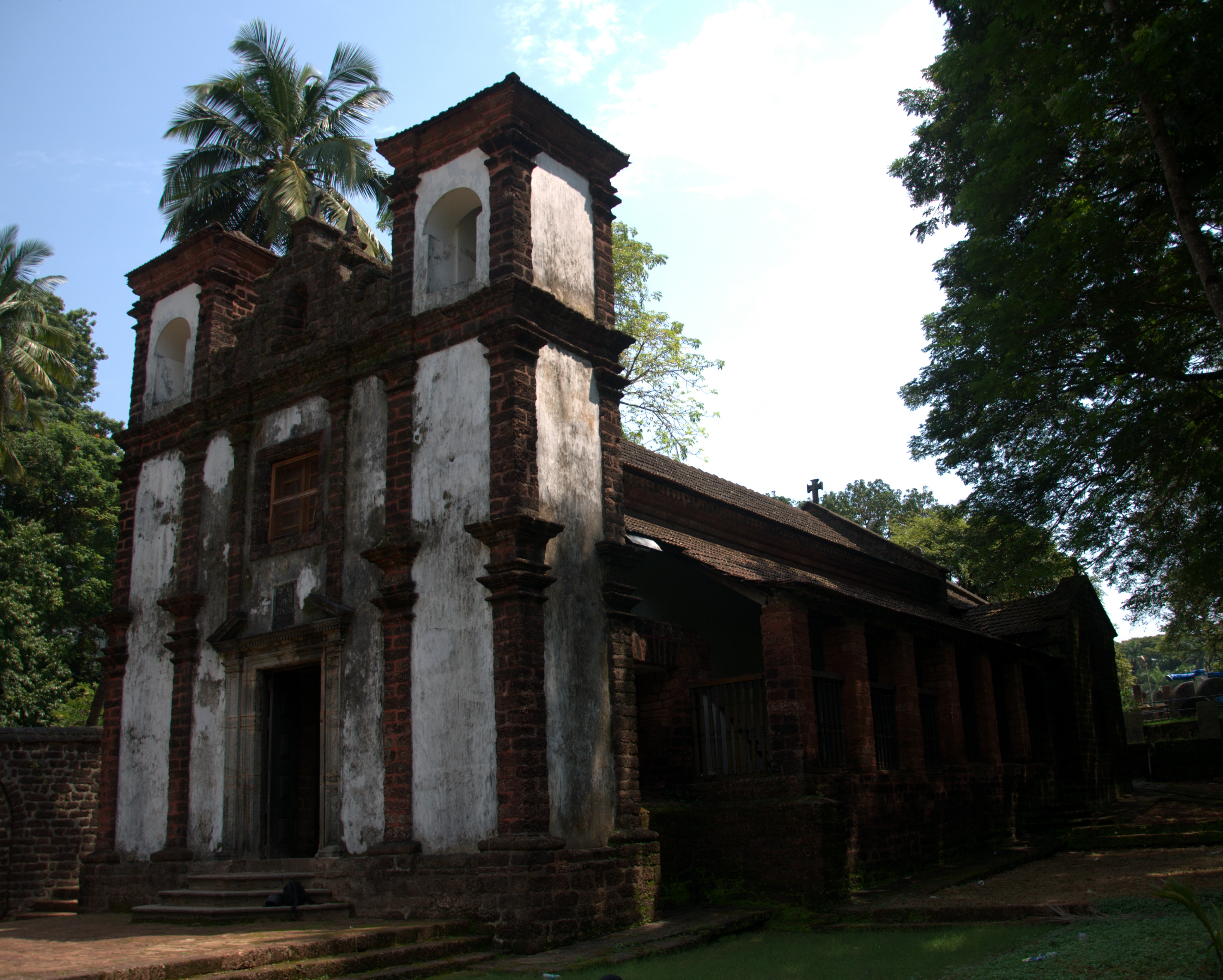 Saint Catherine's Chapel in Velha Goa, Goa, India